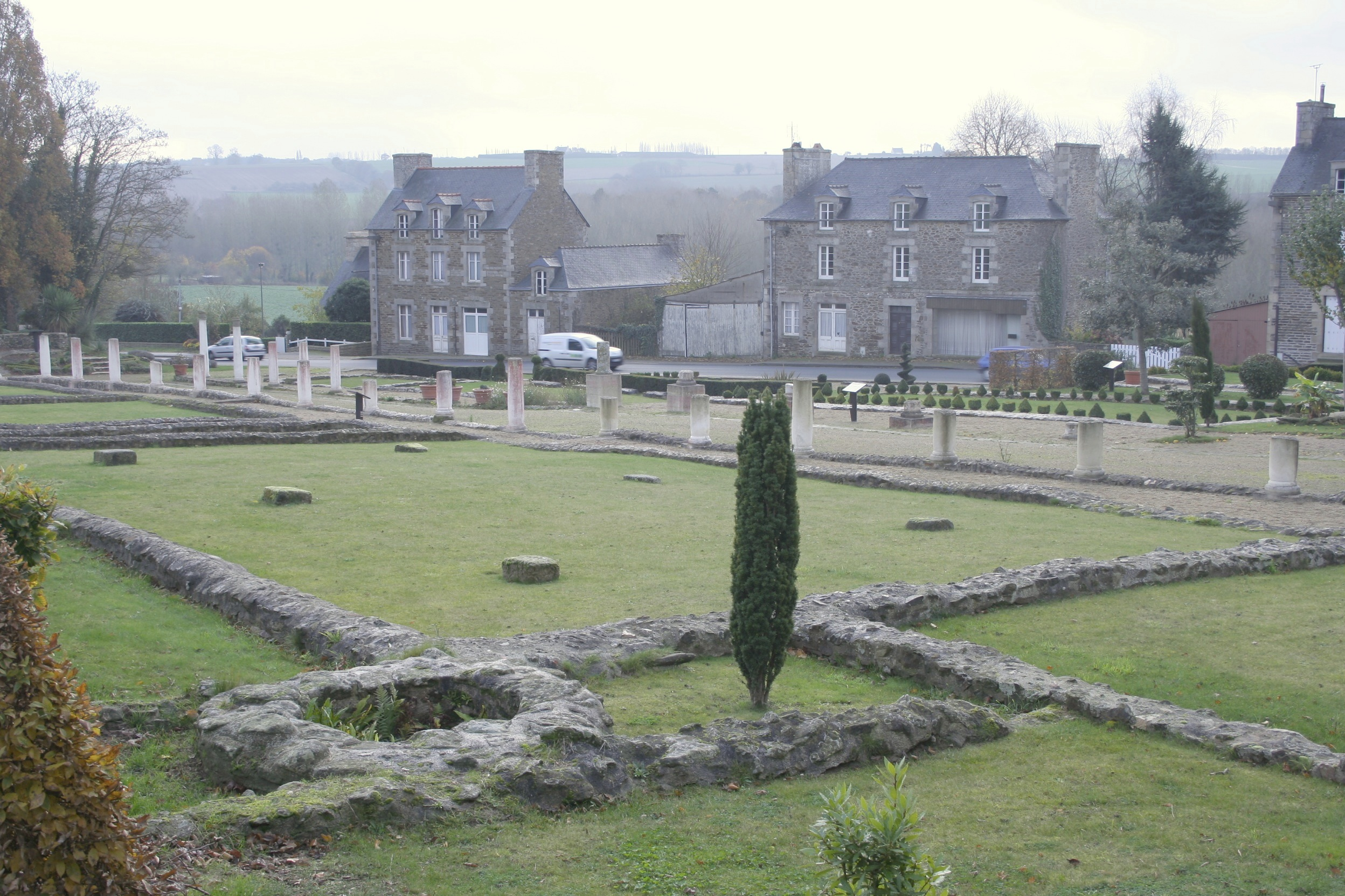 Corseul Roman ruins